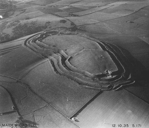 Atlas of Hillforts 3598 An aerial view of Maiden Castle in Dorset. The Ashmolean Museum's description is "General view of Maiden Castle taken 12 Oct 1935 (Album Ref 11, 2)".